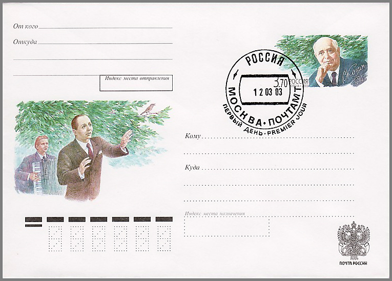 Russia, 2003. EWCS №122. 100th anniversary of the birth Vadim Kozin, singer. Postmark the first day of issue 12.03.2003 Moscow, Central Post Office.